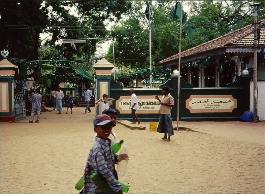 Entrance to the district dedicated to Khidr in Kataragama